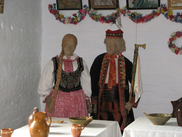 Regional costume of Lachy Sadeckie in skansen museum in Nowy Sącz, Poland.